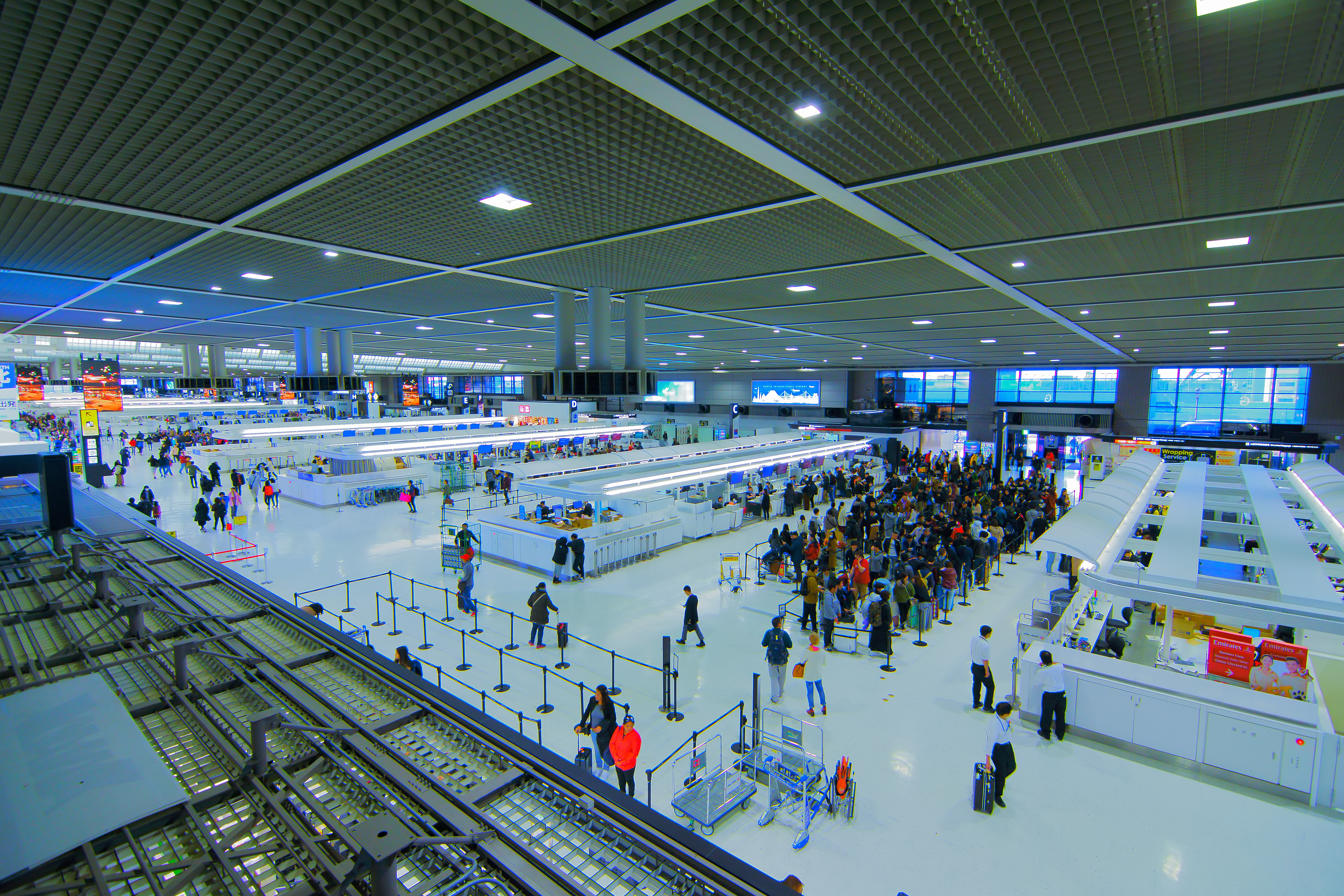 Departure lobby of Tokyo-Narita Airport Terminal 2 is used by One World.